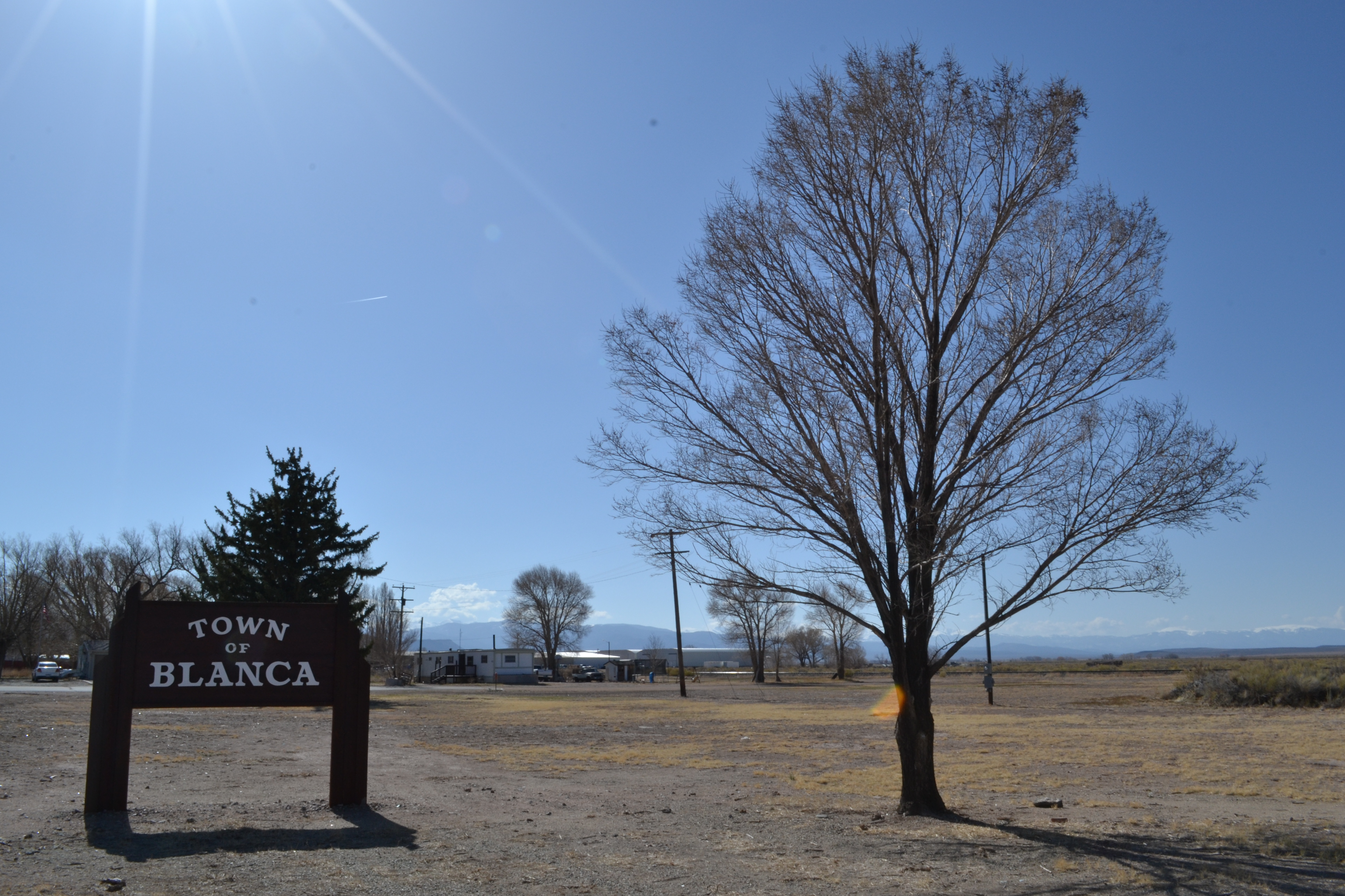 Image of the town of Blanca, Colorado, USA